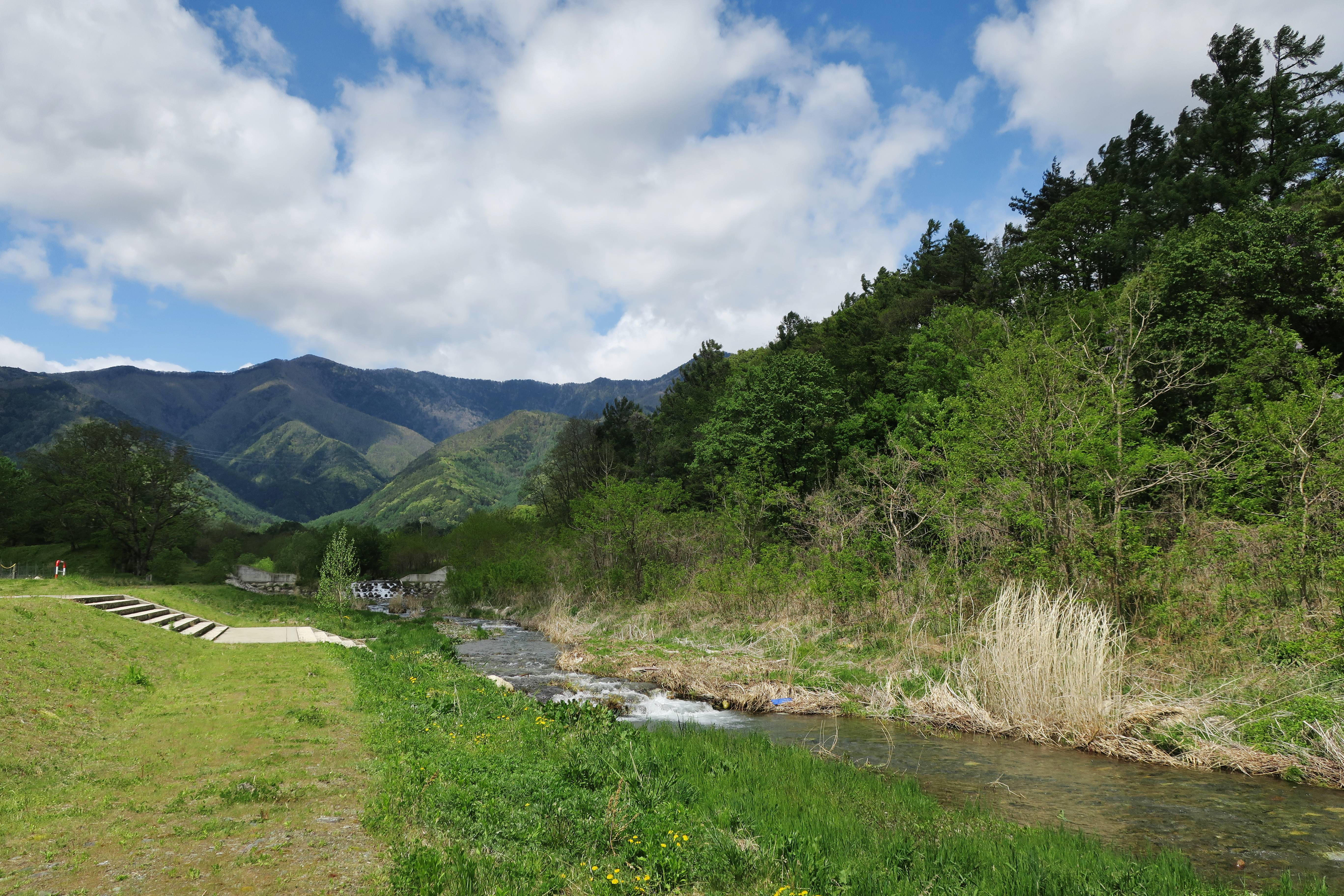 Kurosawa River at Azumino Winery.